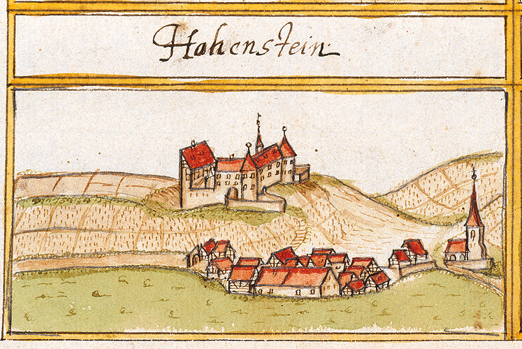 View of Hohenstein, Bönnigheim, from the forest register books created by Andreas Kieser